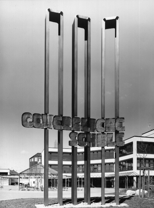 Sculpture made by Paul Zimmermann, year 1987, Location Gewerbliche Schule MetzingenDeitsch: Skulptur von Paul Zimmermann aus dem Jahr 1987, Standort Gewerbliche Schule Metzingen